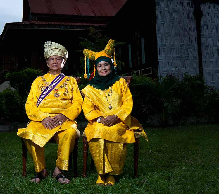 Silinduang Bulan Palace